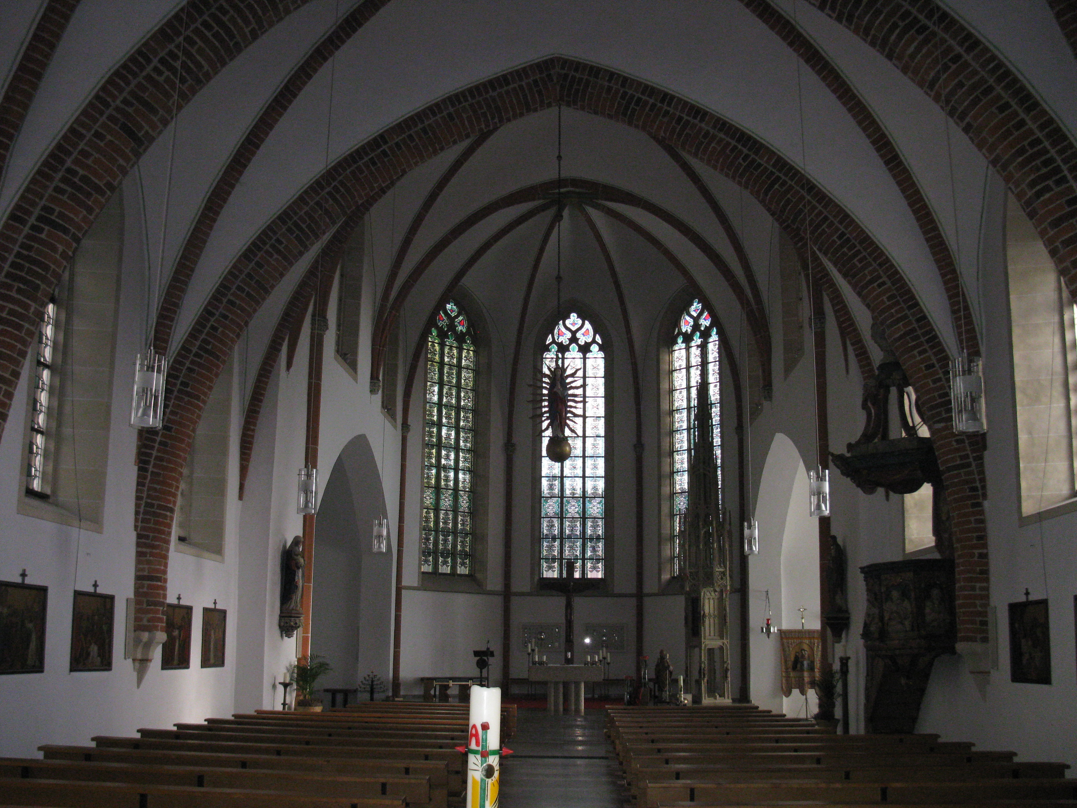 Catholic Saint Ludger Church, Heek, Germany.